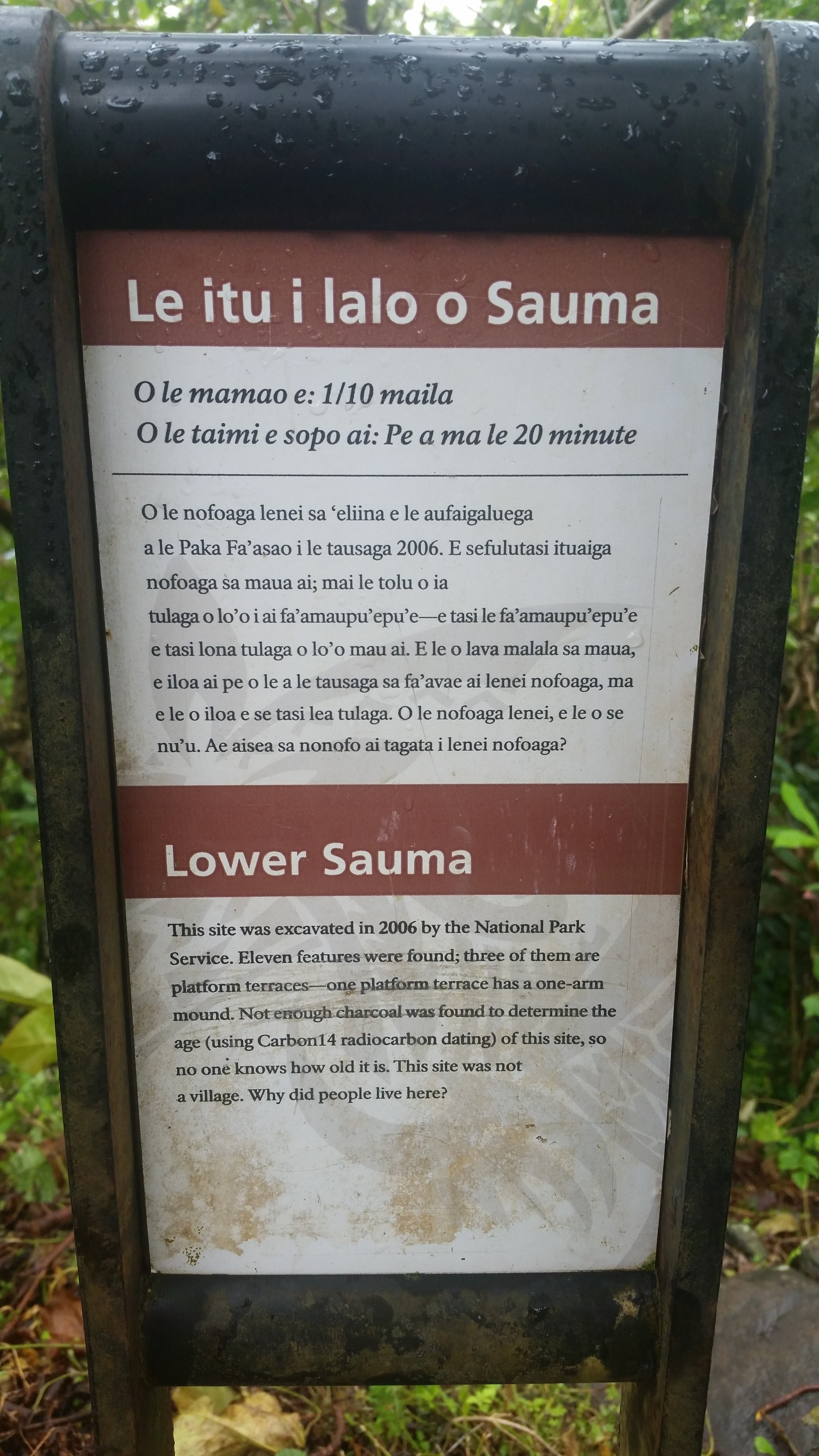 American Samoa National Park sign for Lower Sauma